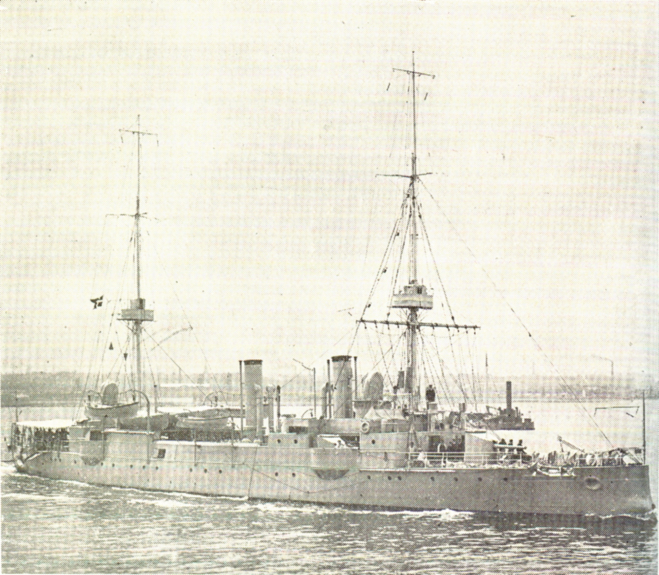 Small Danish Cruiser Geiser 1919